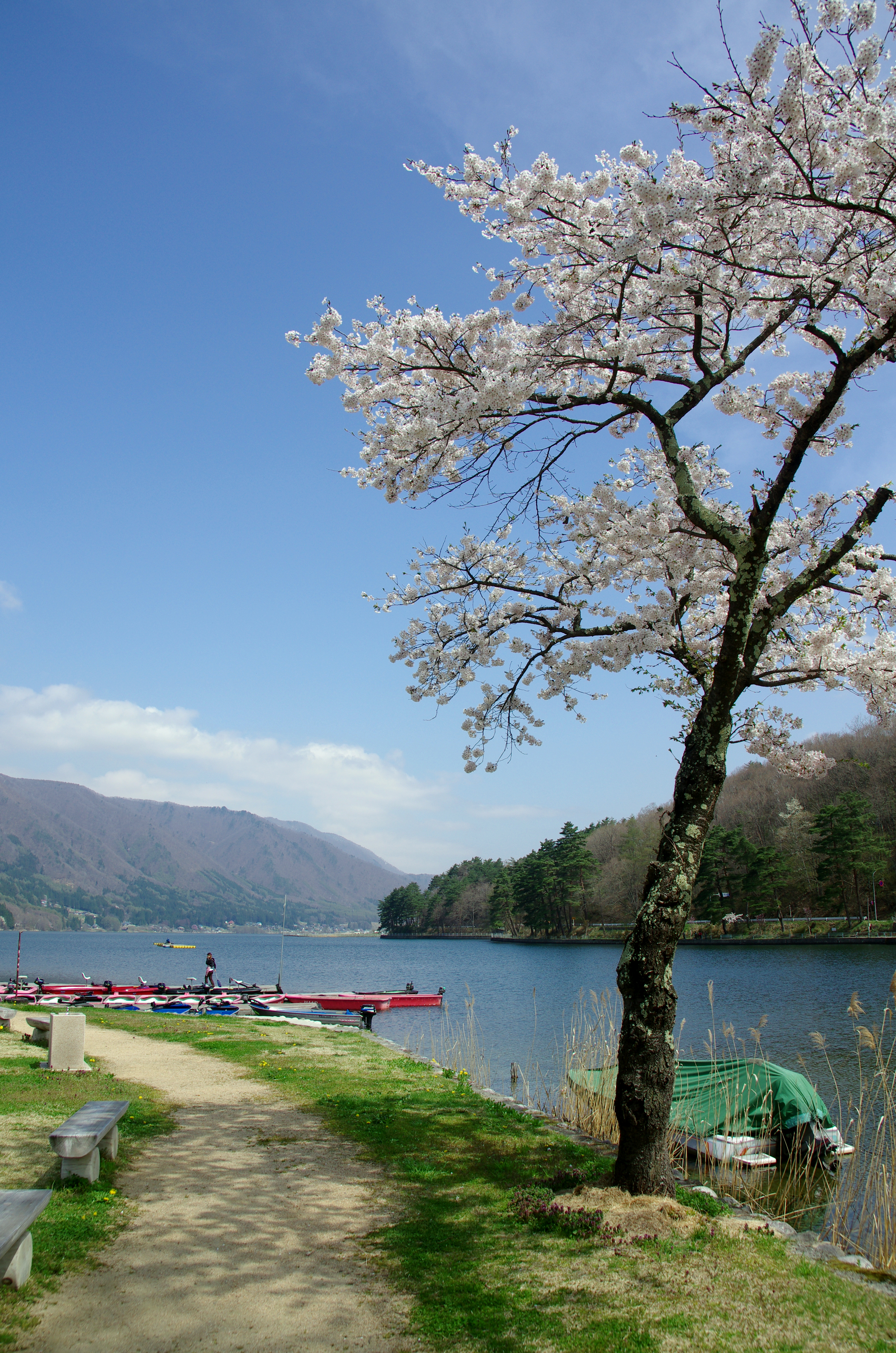 Lake Kizaki seen from the park next to Seiko-tei boat-house See the map.Pentax K-5 Geotag data has been added below. The margin of error should be within 10 metres.--トトト (talk) 12:22, 19 October 2011 (UTC)